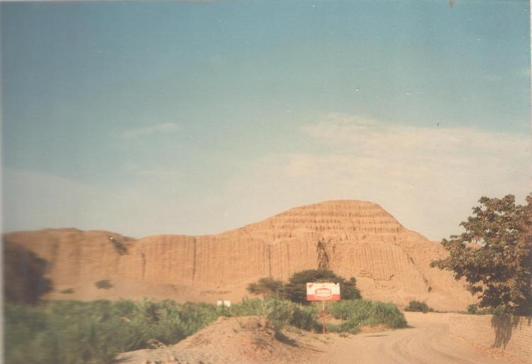 Temple of the Sun (Huaca del Sol), Moche, Peru